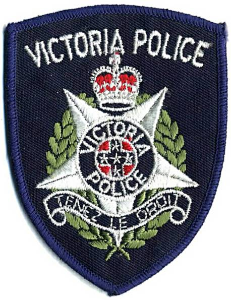 Picture taken by the uploader of a badge of Victoria Police - Australia